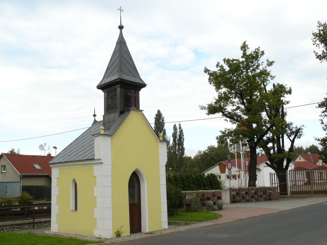 This photograph was taken within the scope of the second year of the 'Czech Municipalities Photographs' grant.